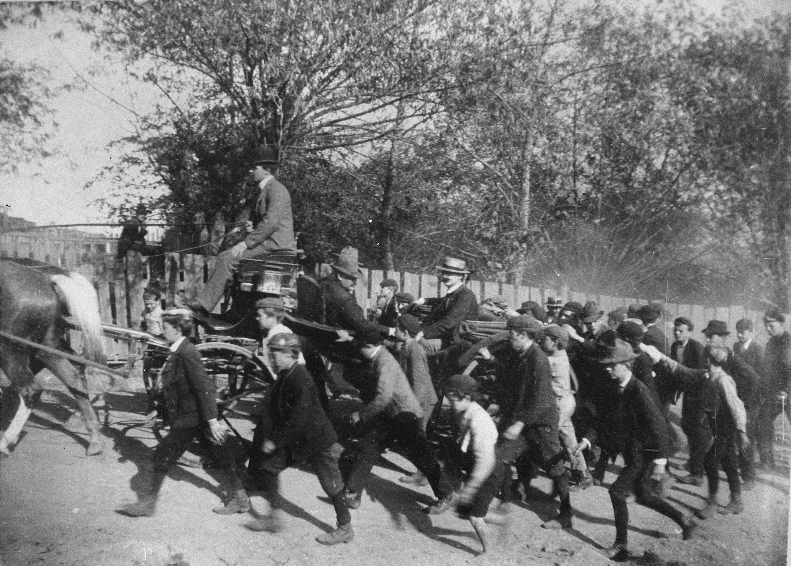 Shenandoah, Pennsylvania. John Mitchell, President of the UMWA (United Mine Workers of America), arriving in the coal town during the Anthracite coal strike of 1902. His open four-horse carriage is surrounded by a crowd of boys. The driver of the high front seat is wearing a derby hat.